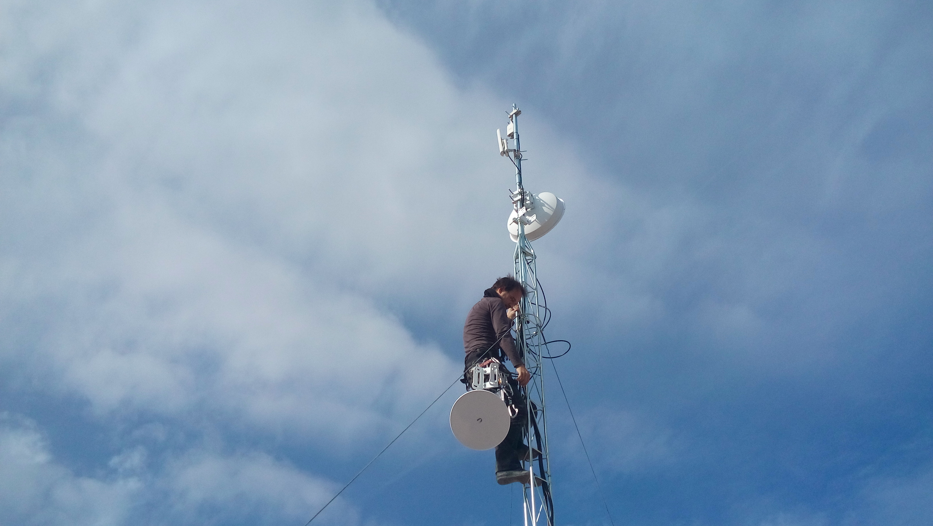 Installation of a "supernode" of 's network in the neighbourhood of Sant Pere i Sant Pau in Tarragona.